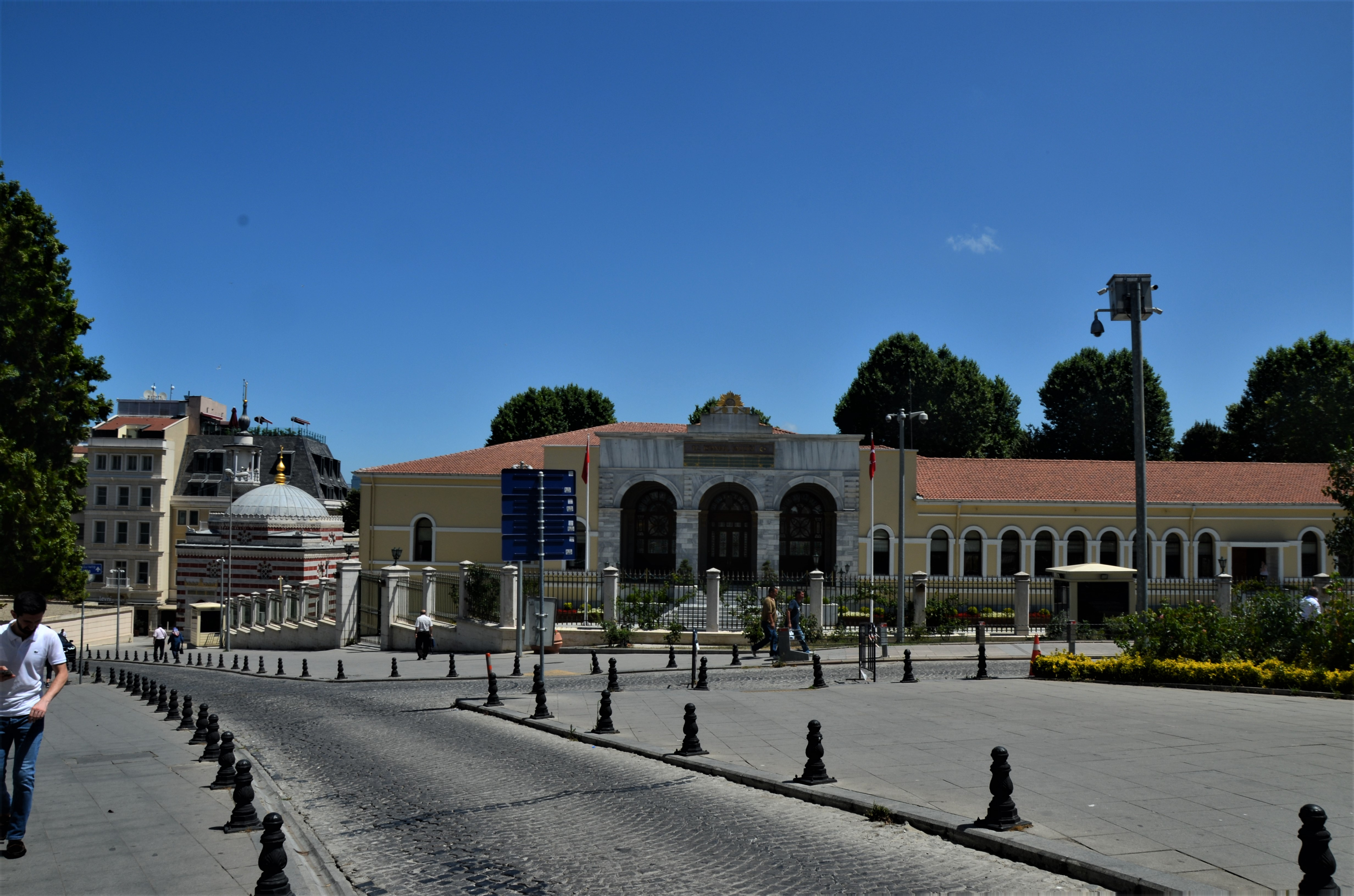 Istanbul Governor's Office at Cağaloğlu, Fatih, Istanbul, Turkey. Former headquarters of the Ottoman Government.